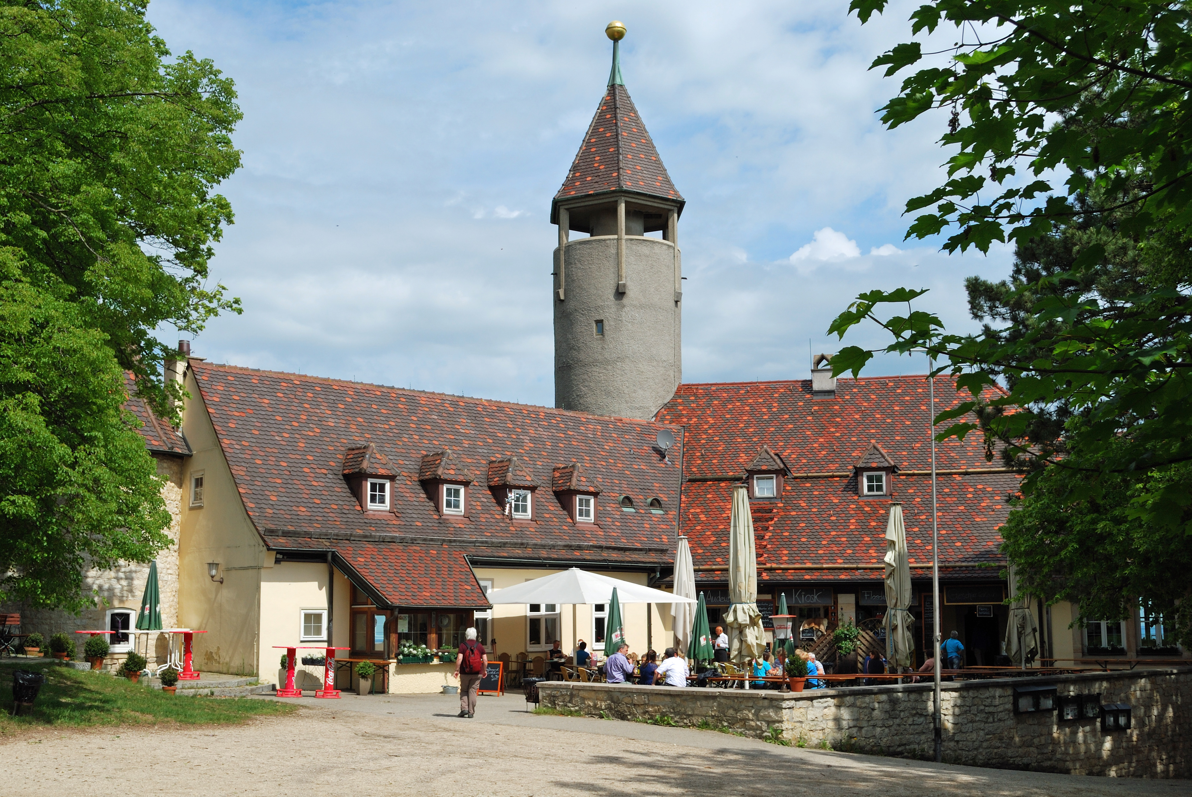 Courtyard of the castle Teck with a Restaurant. Swabian Jura in the German Federal State Baden-Württemberg.